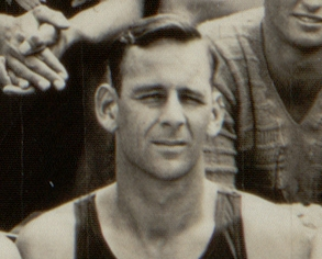 Fred Thompson, New Zealand rower, at the 1932 Summer Olympics. Original photo from the Library of Congress of all rowing teams competing at the 1932 Olympics.